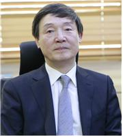 Profile picture of Kim Sa-in, the 7th President of Literature Translation Institute of Korea